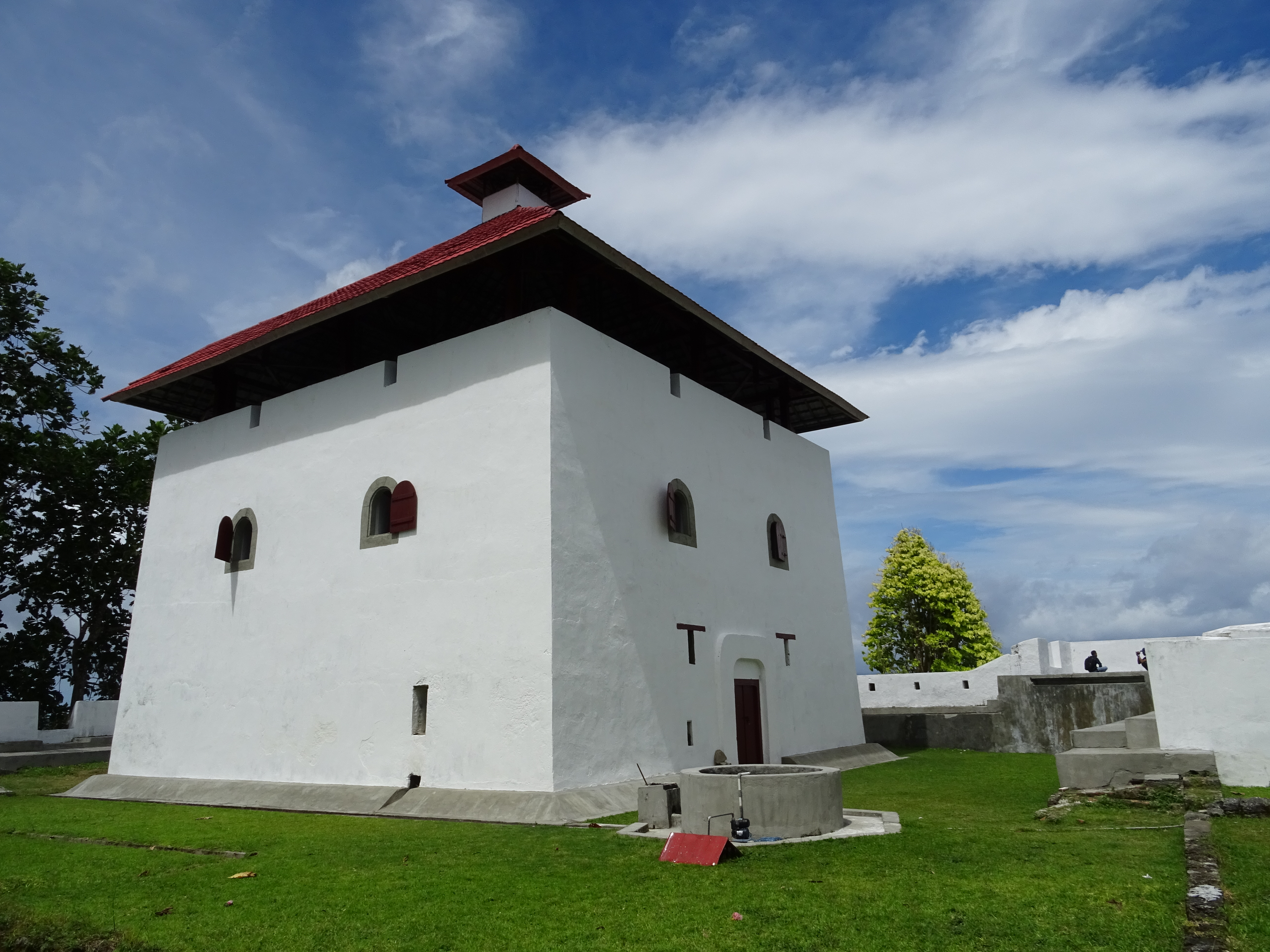 Fort Amsterday in the village of Hila, Ambon, Maluku Islands